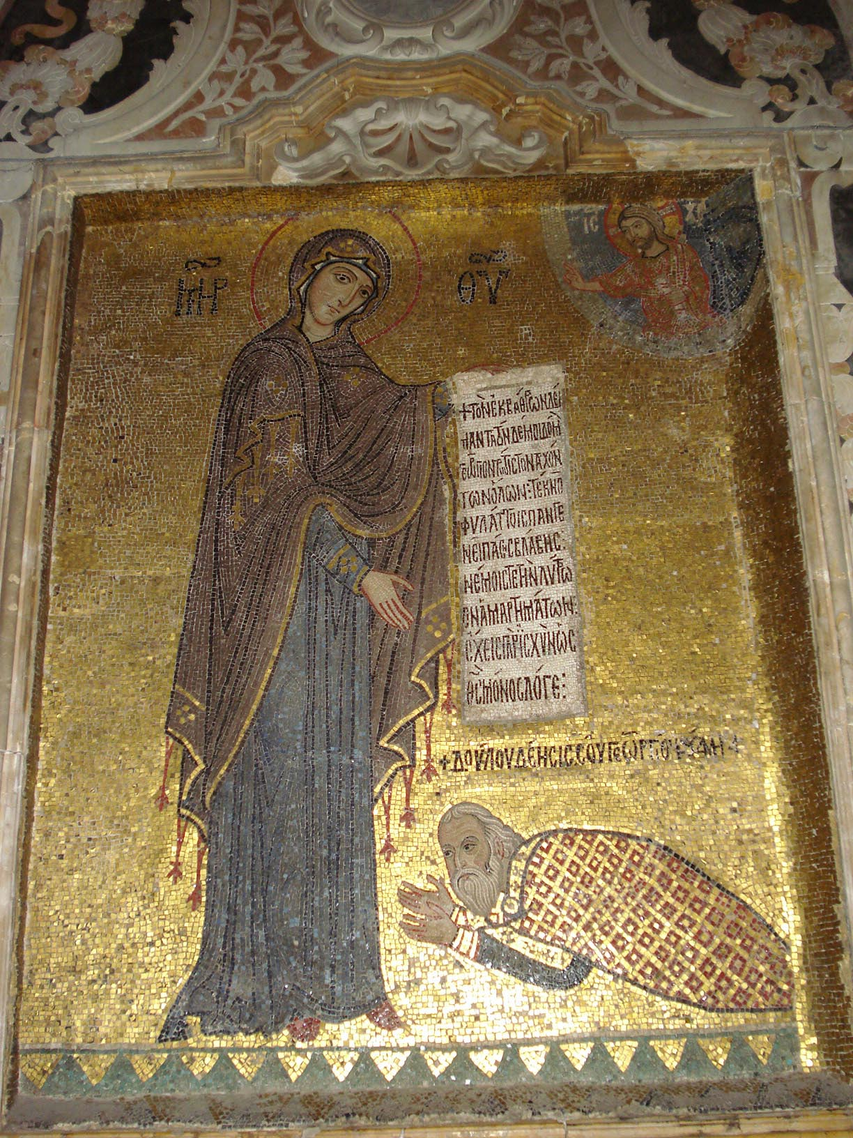 George of Antioch and Holy Virgin